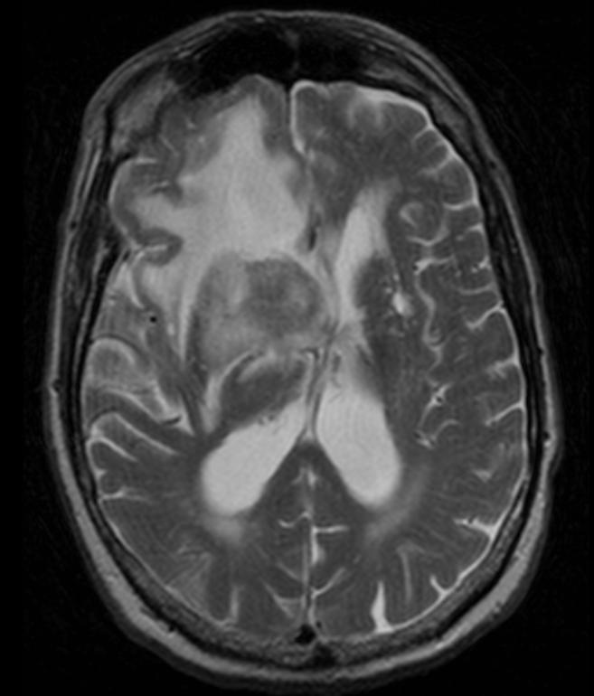 Primary CNS Lymphoma, MRI, T2